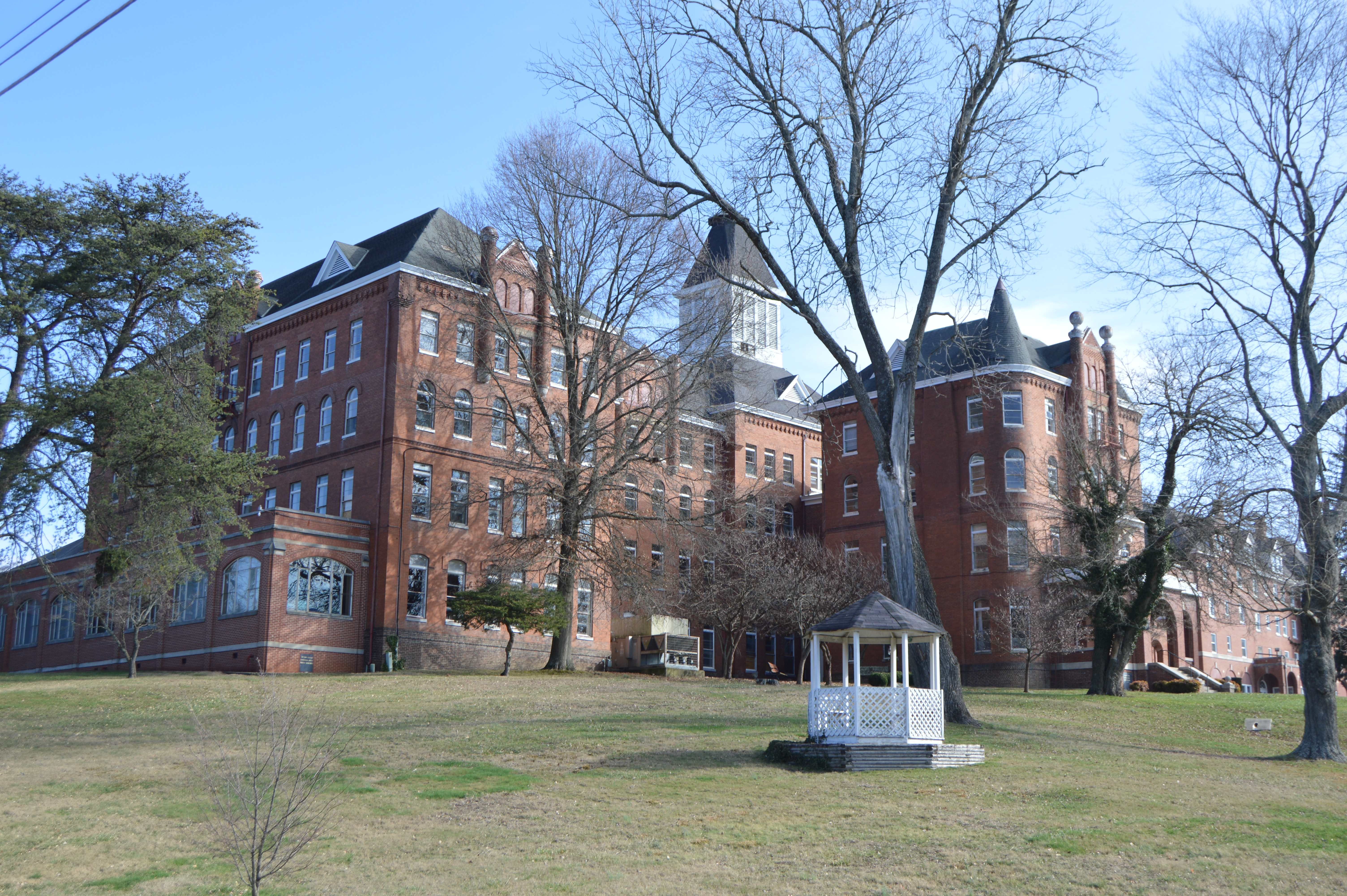 Southern front and western side of buildings (at center, the Main Building, constructed 1890) on the campus of the former Virginia Intermont College, located on Moore Street north of Buchanan Street in Bristol, Virginia, United States. The central part of the campus is listed on the National Register of Historic Places.